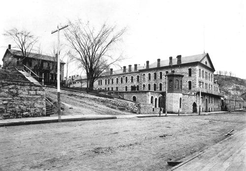 Minnesota Territorial Prison and Warden's House, Main Street, Stillwater, Minnesota, United States, photographed from the southeast in 1885.